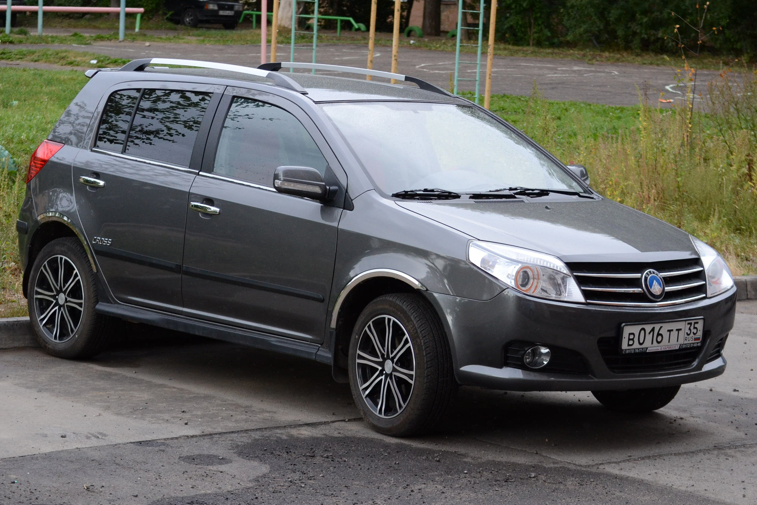 Geely MK Cross for Russian market